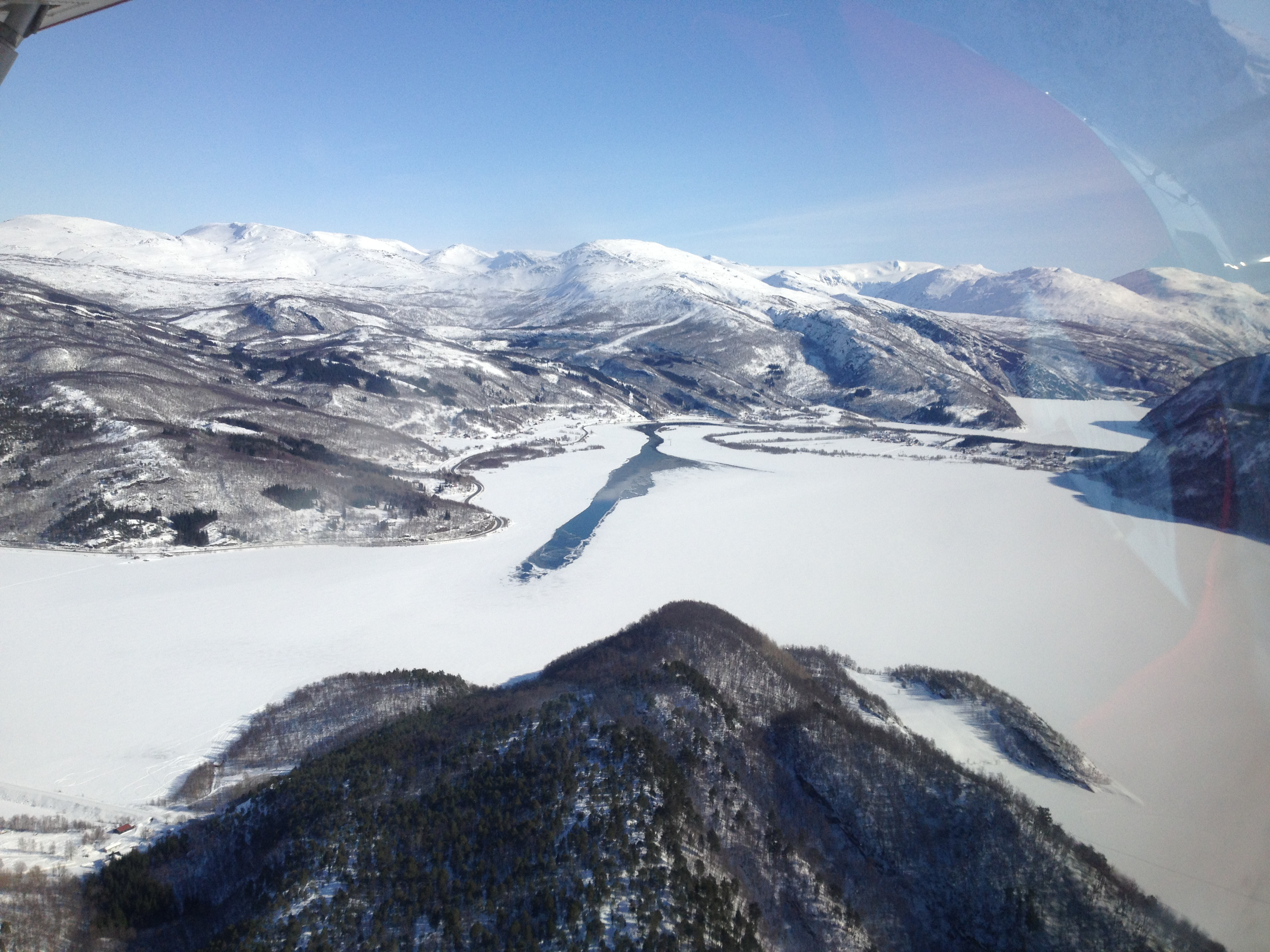 Vatenbygda in Fauske, Nordland, Norway.